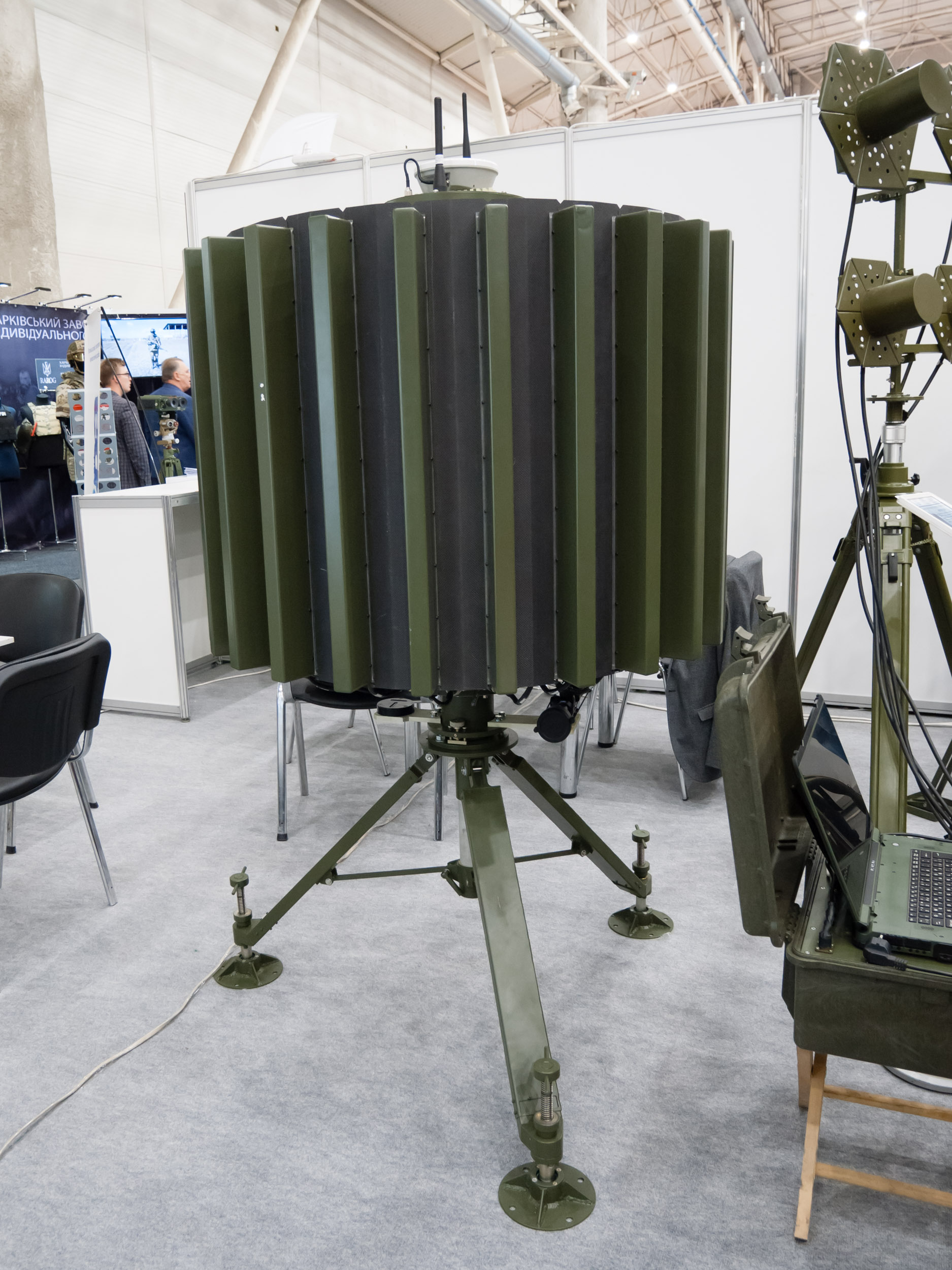 Biskvit-KB counter-battery radar (by Ukrspetstechnika, Ukraine). 'Zbroya ta Bezpeka' military fair, Kyiv, Ukraine, 2019